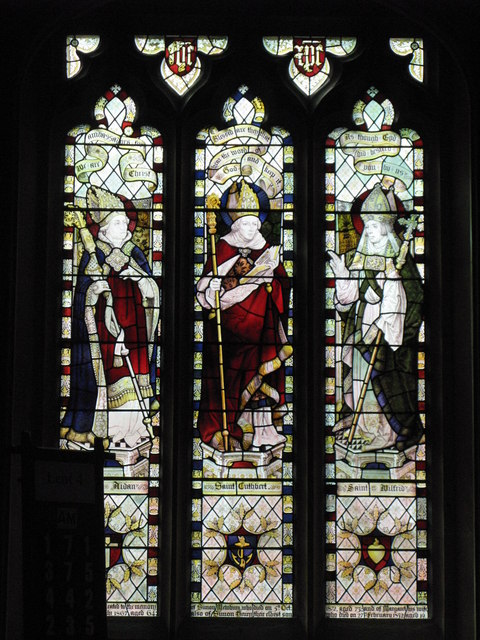 St. John Lee, stained glass window depicting saints (from left to right) Aidan, Cuthbert and Wilfrid